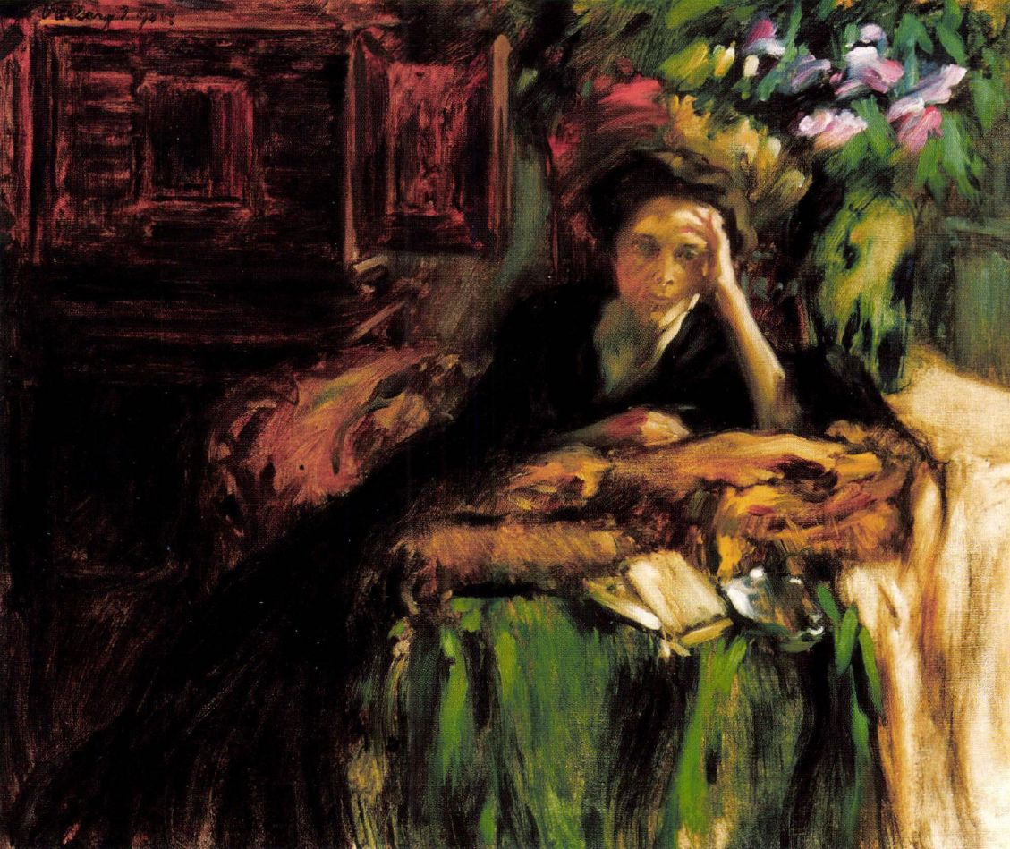 Ilona Andrássy (1858-1952): wife of Lajos Batthyány (1860-1951), mother of Gyula Batthyány (1887–1959)